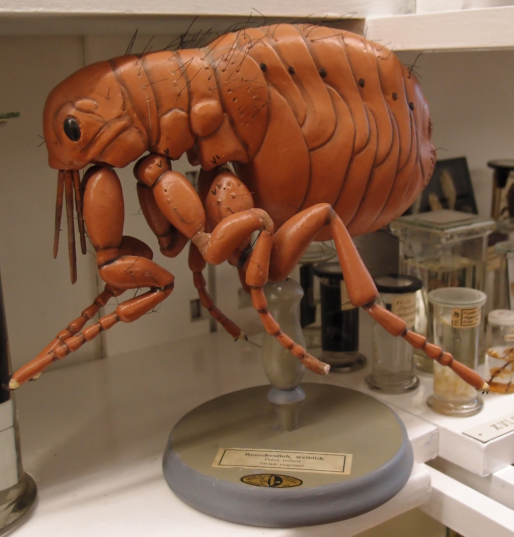 Model from the zoological collection Rostock, Germany. see also for more information on the models